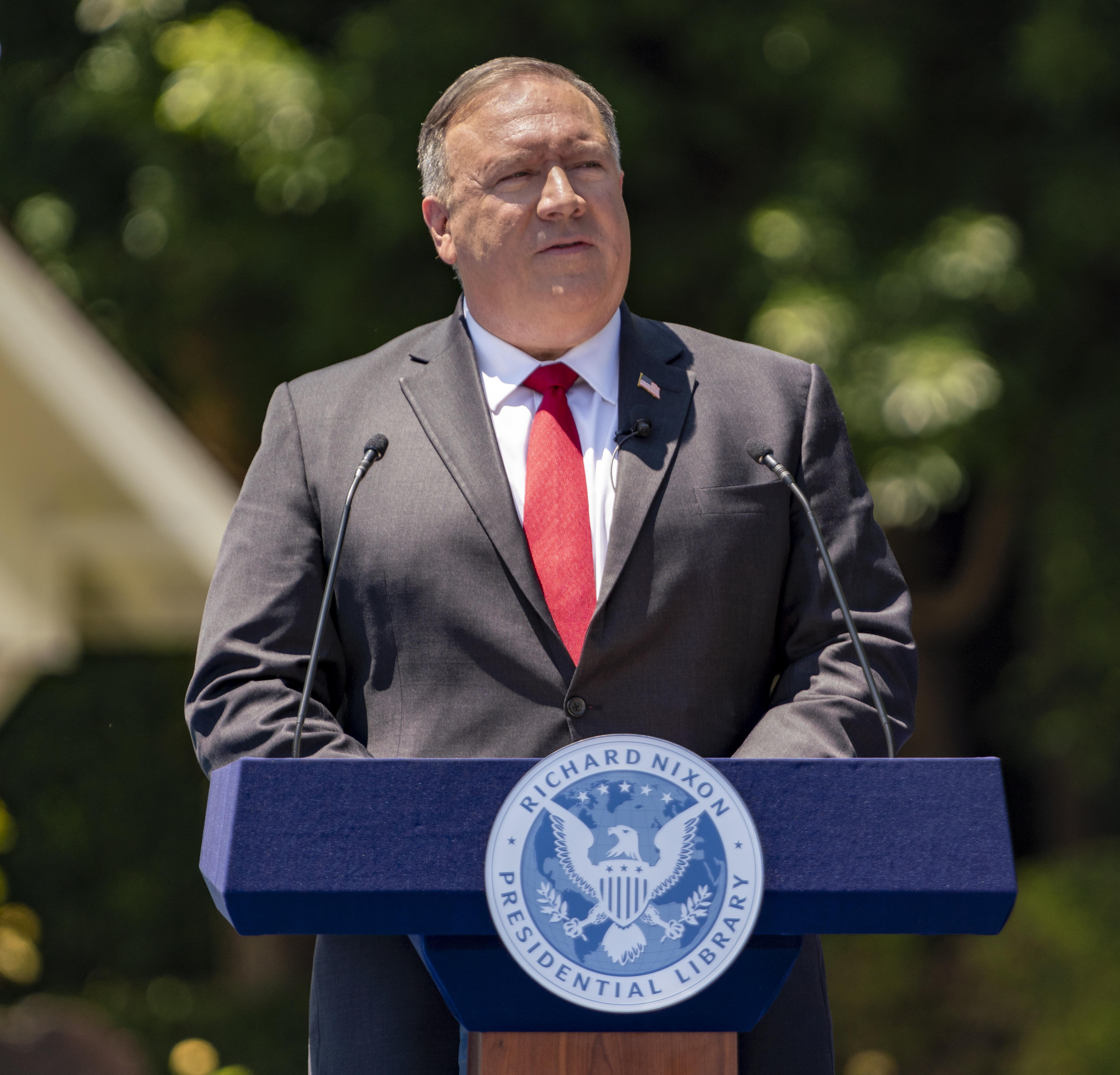 Secretary of State Michael R. Pompeo delivers a speech on “Communist China and the Free World’s Future” at the Richard Nixon Presidential Library, in Yorba Linda, California, on July 23, 2020. [State Department photo by Ron Przysucha/ Public Domain]